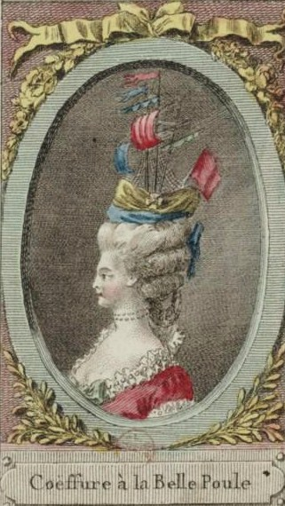 Example of ca. 1780 "big hair" themed hairstyle, with objects placed in the hair to make a statement.